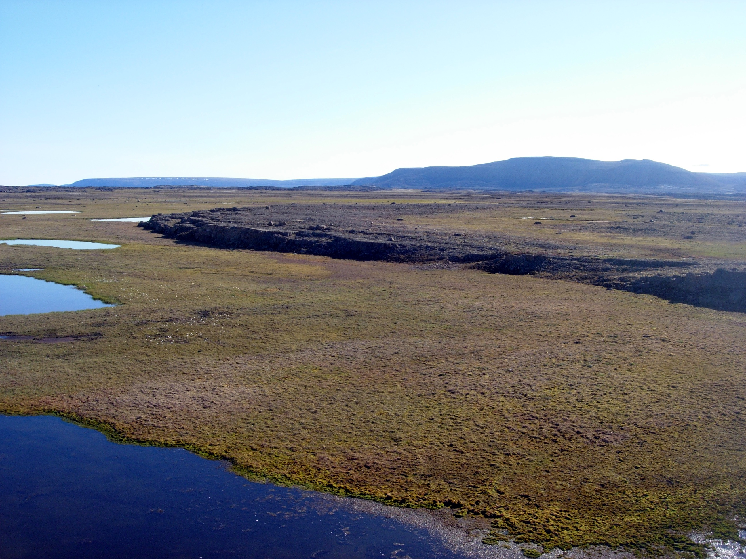 Truelove Lowlands, Devon Island, Nunavut, Canada. Photo by Martin Brummell